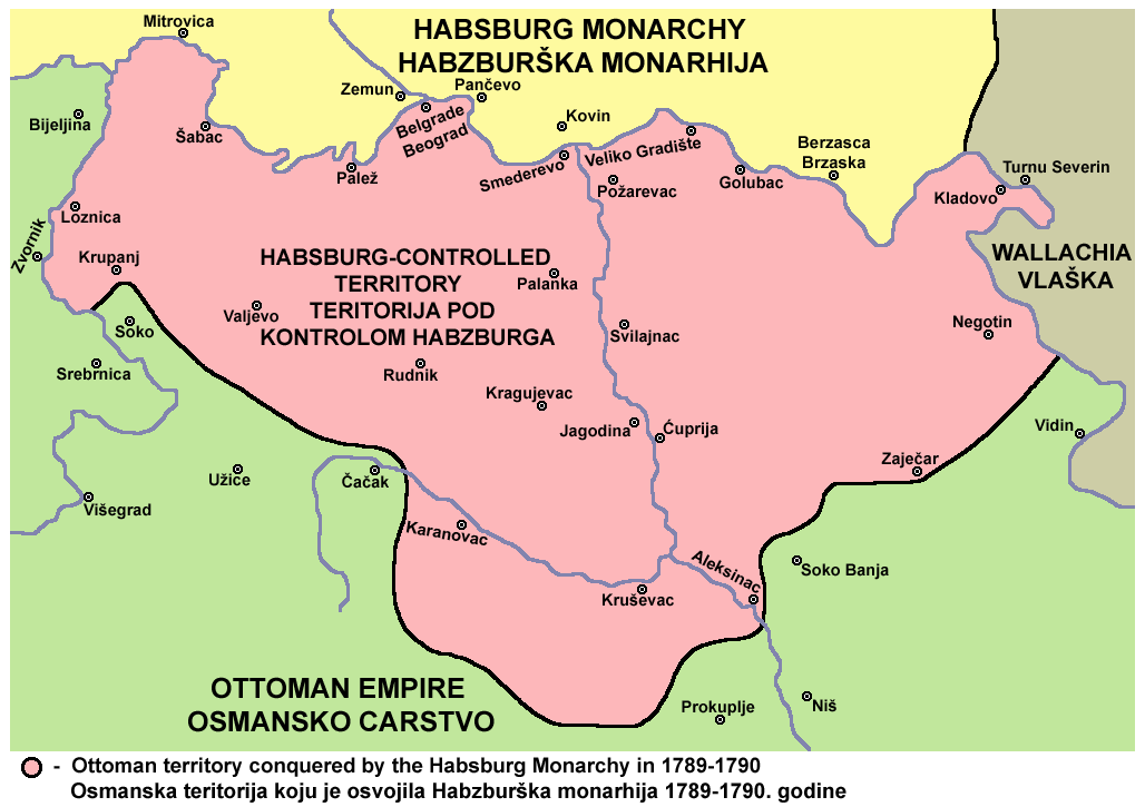 Ottoman territory conquered by the Habsburg Monarchy in 1789-1790.